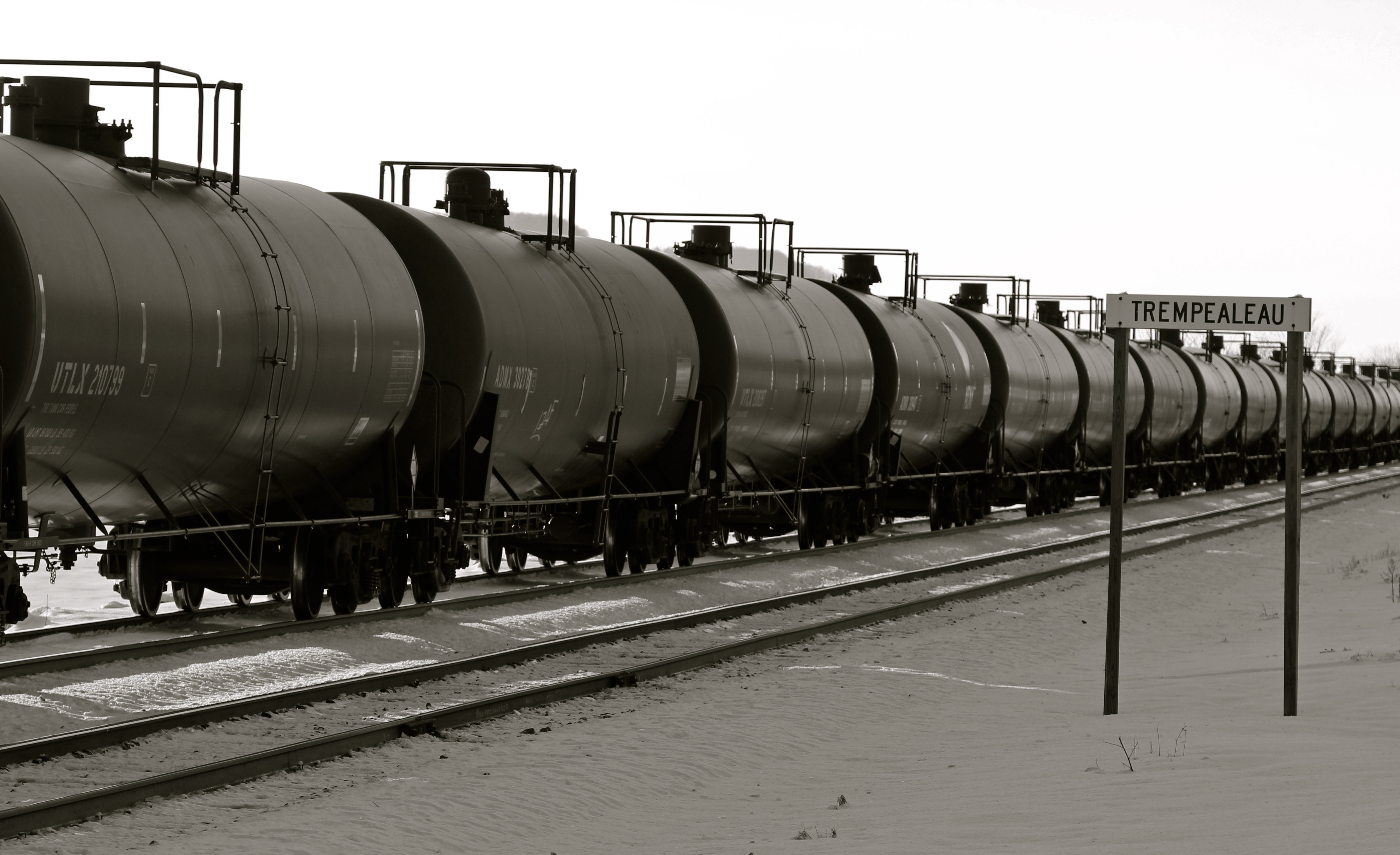 BNSF's Northern Transcon is the main rail conduit for 600,000+ bbl/d of oil from western North Dakota's Bakken oil field. B&W image. Trains head south to the St. James tank farm in Louisiana, or east to refiners in Philadelphia or Liden via Norfolk Southern. B&W image.